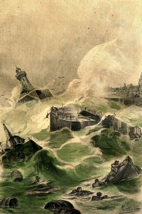 An illustration from Jules Verne's novel "Propeller Island" (also published as "The Floating Island, or The Pearl of the Pacific", 1895) drawn by Léon Benett.